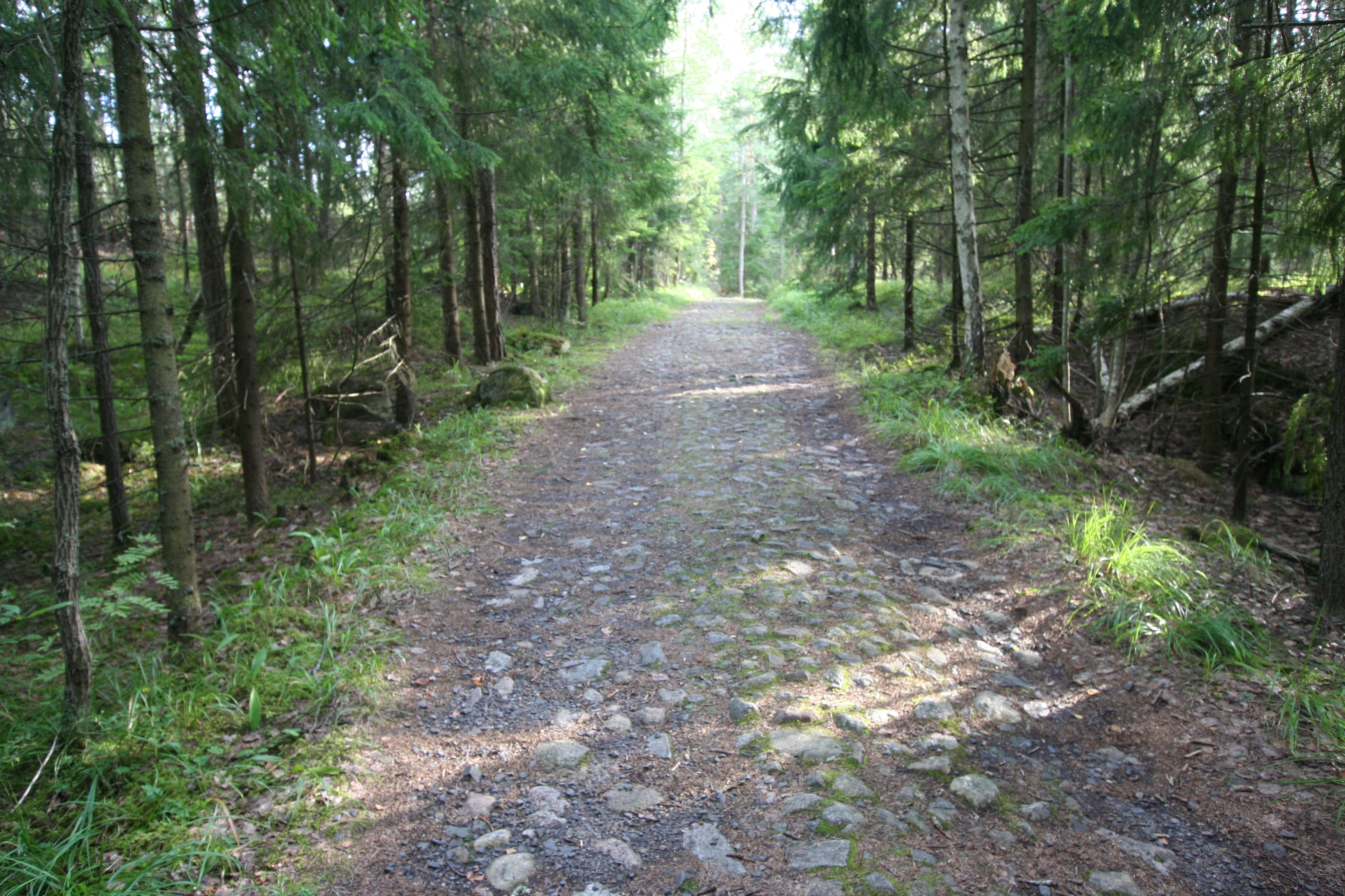 Mustavuori canoon road